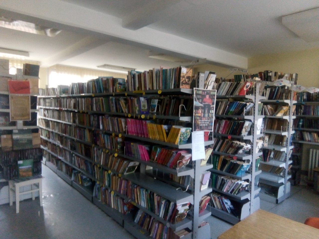 National library "Vuk Karadzic" Batočina Srpski (latinica): Narodna biblioteka "Vuk Karadzic" Batočina